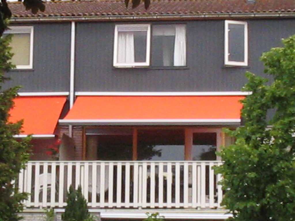 Houses with sunshades somewhere in Tanthof.